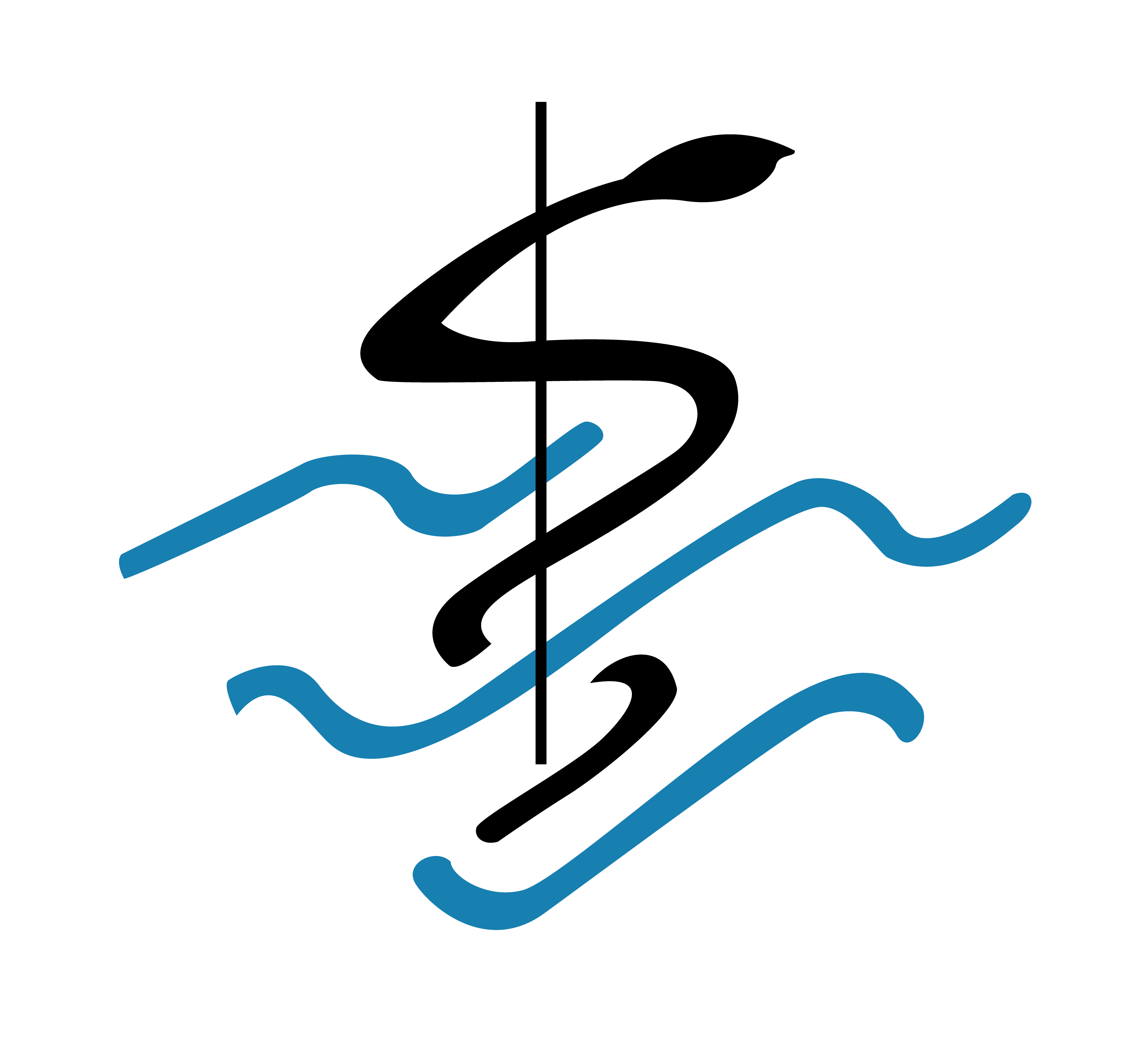 Official Logo of Cox's Bazar Medical College